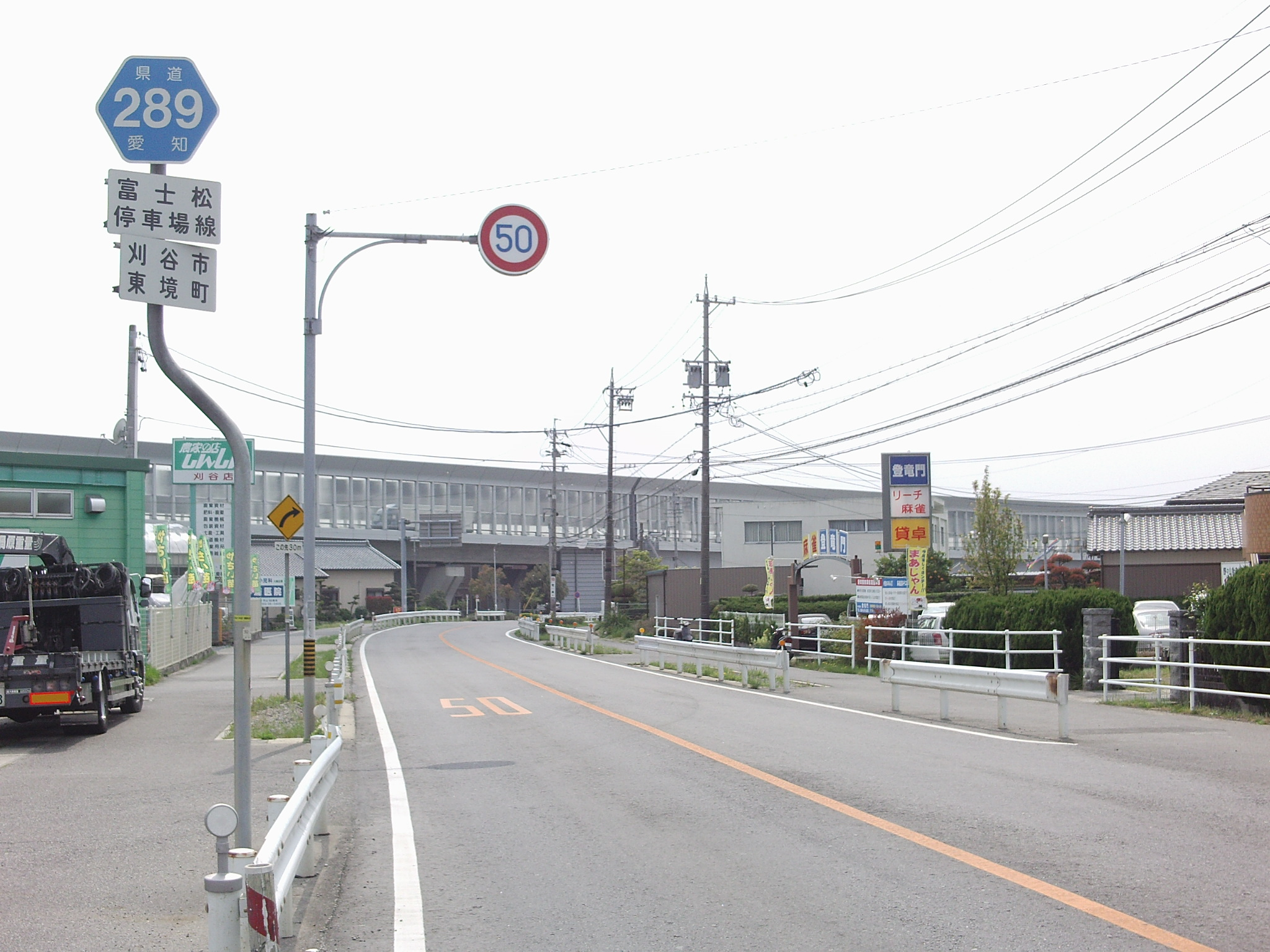 Aichi prefectural road No.289 in Higashizakaicho, Kariya, Aichi.